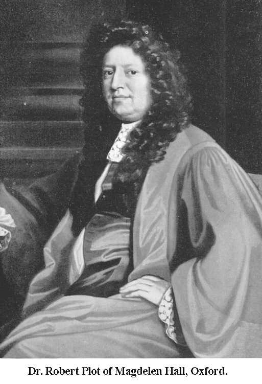 Robert Plot (Borden, Kent, England, 1640 December 13 - Borden, 1696 April 30), was a British naturalist, Professor of Chemistry at Oxford University and the first keeper of the Ashmolean Museum.